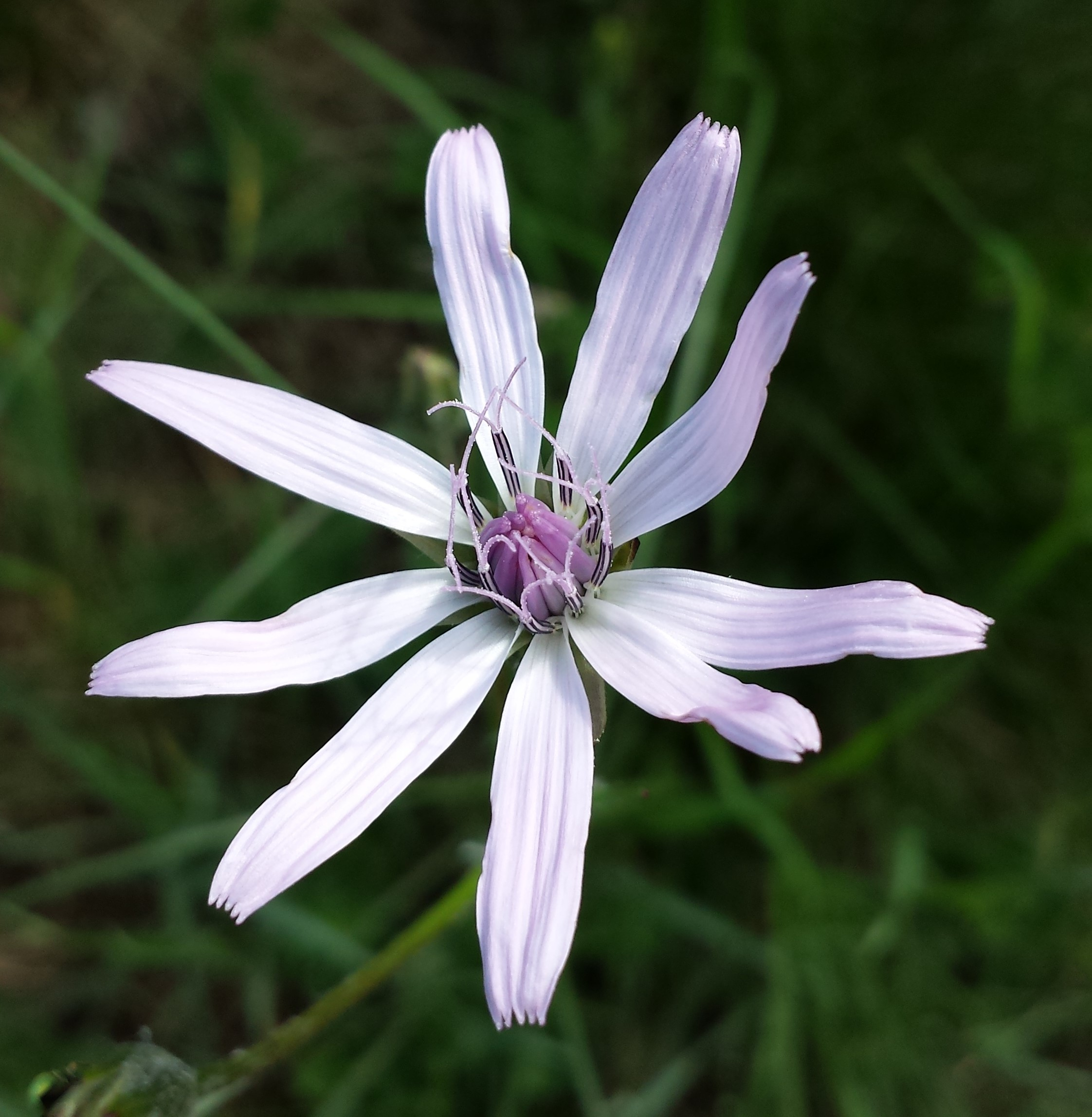 Taxon: Scorzonera purpurea Location: Steinbacher Heide, Leiser Berge, district Korneuburg, Lower Austria Habitat: on dry grassland Identified according to: Fischer et. al. ExFlora Austria etc. 2008